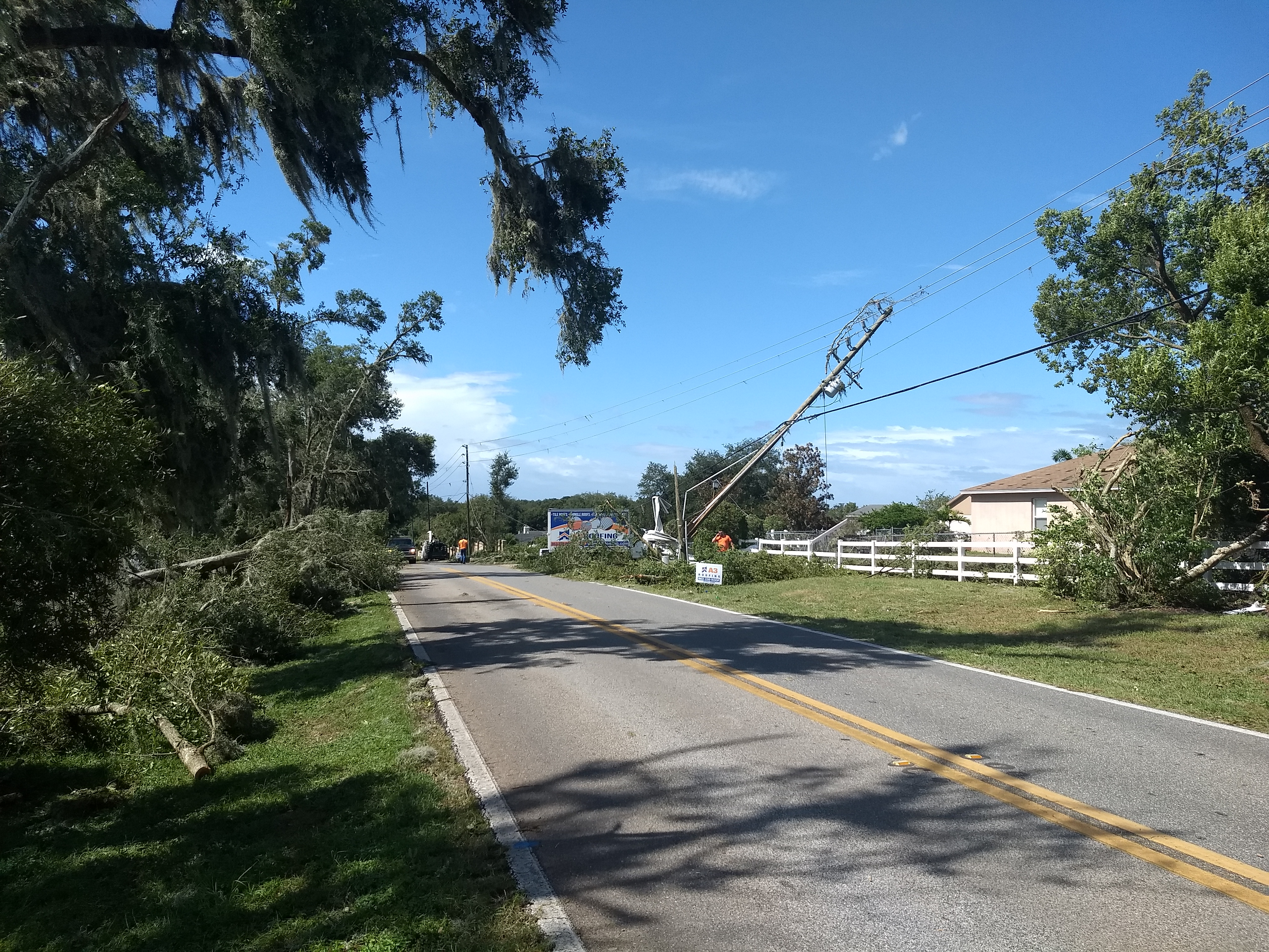 Damage from EF-2 tornado along Campbell Road at Ashley Pointe Drive in Kathleen, which struck just after 11PM on October 18, 2019. Photo taken 14 hours later with utility crews attempting to restore power.